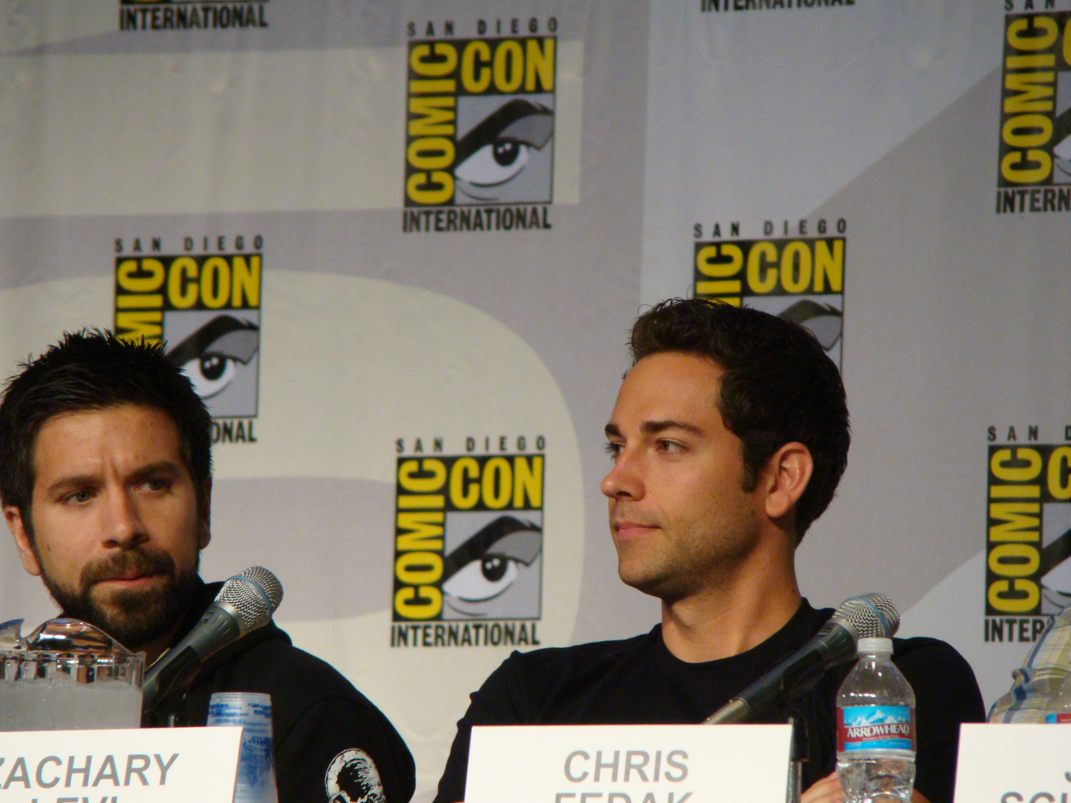 Joshua Gomez and Zachary Levi at Comic-Con 2010